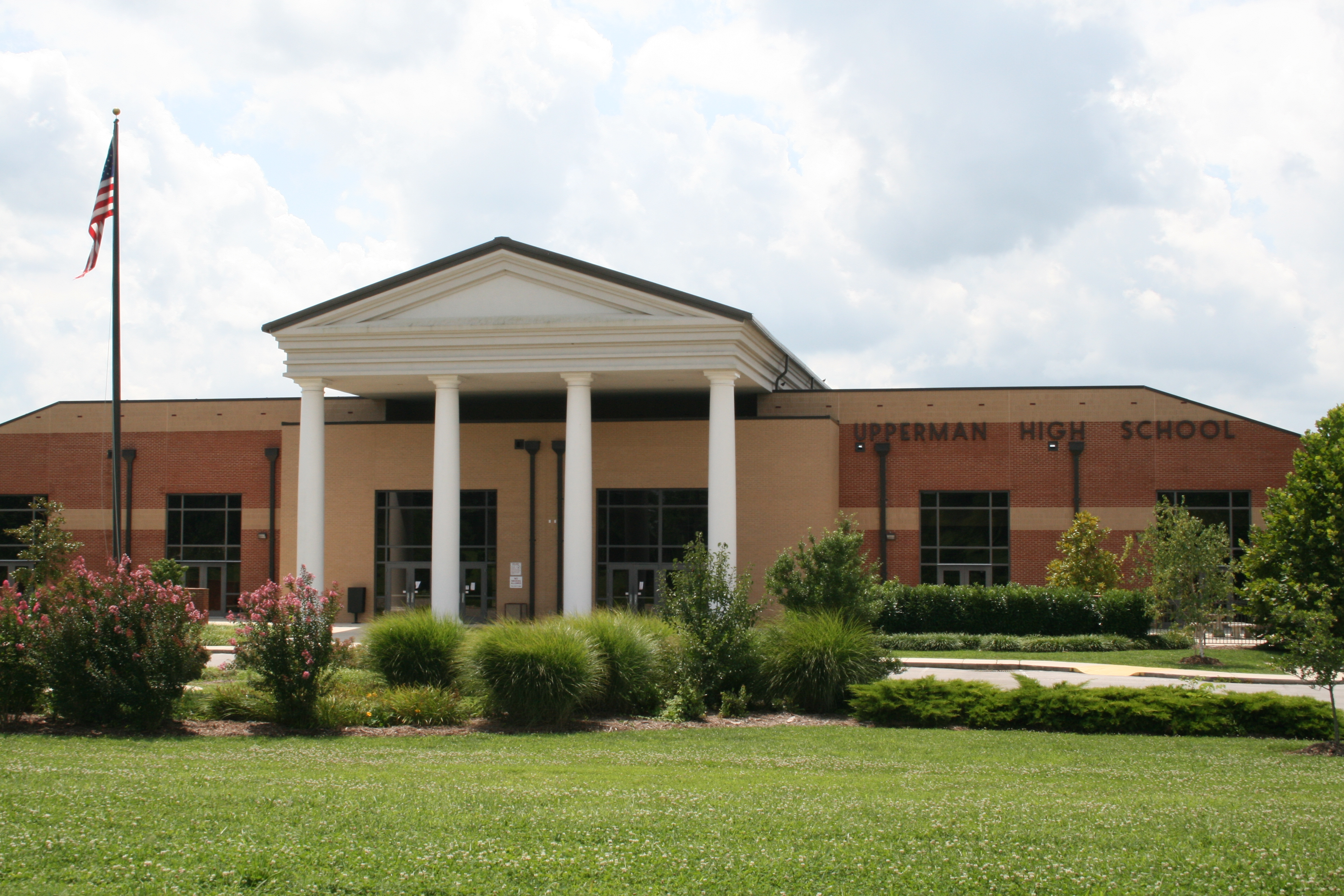 Picture of the front of Upperman High School, Baxer, TN.